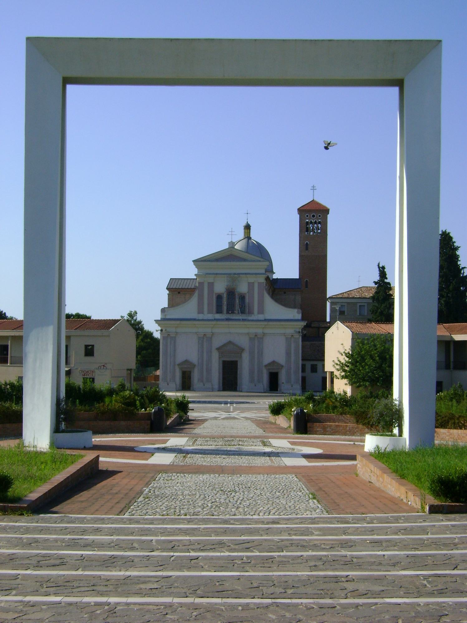 A view of the Shrine of Our Lady of Miracles, Casalbordino, province of Chieti, Abruzzo